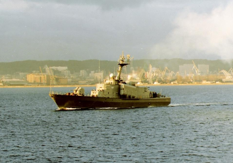 ORP Rolnik Polish Navy missile craft Project 1241RE (Tarantul-I) class